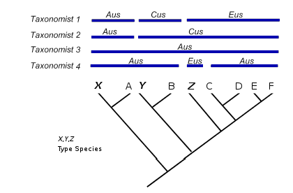 Diagrammatic representation of different nomenclatural interpretations for species, analog to explains at